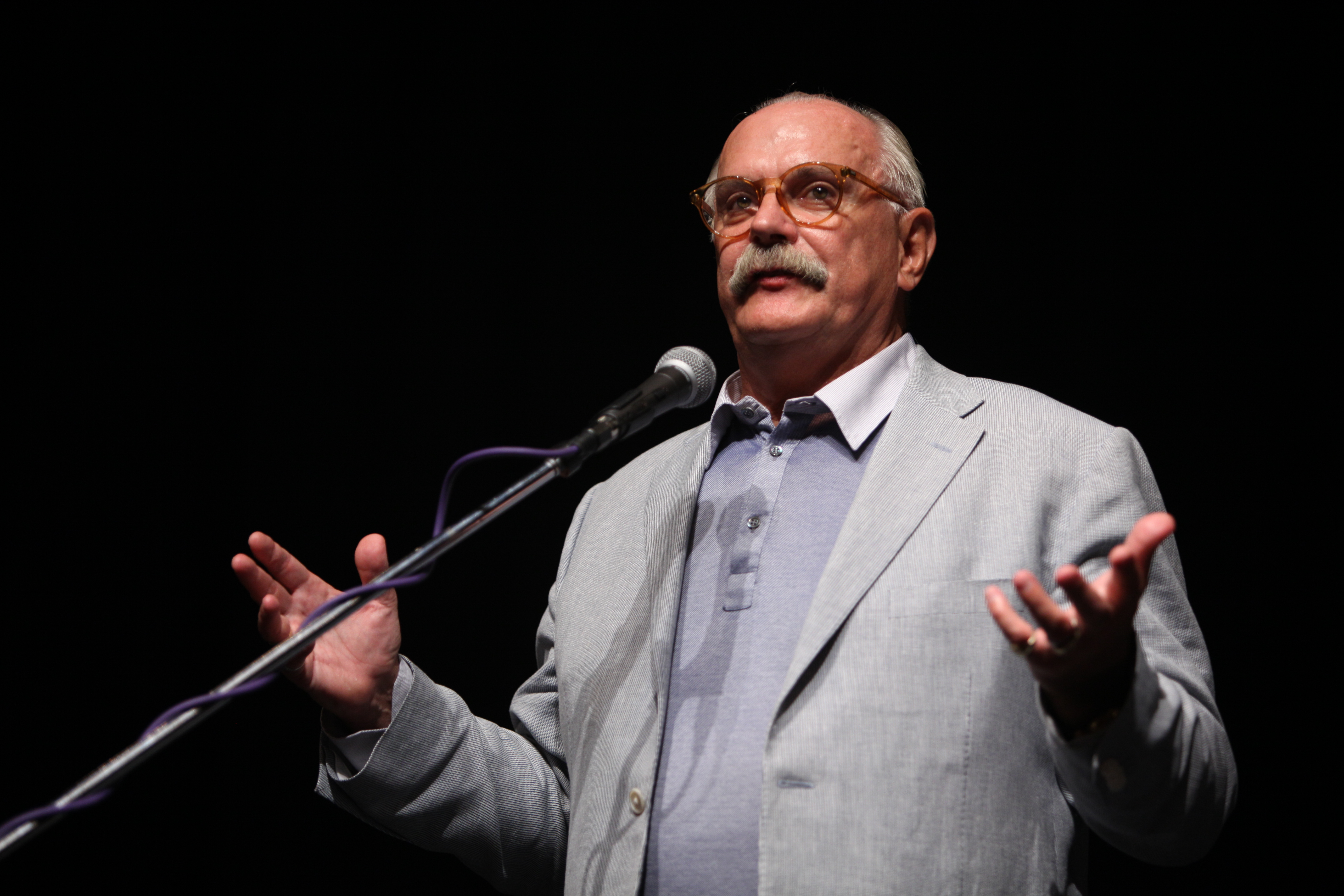 Russian film director Nikita Mikhalkov at 2010 Karlovy Vary International Film Festival